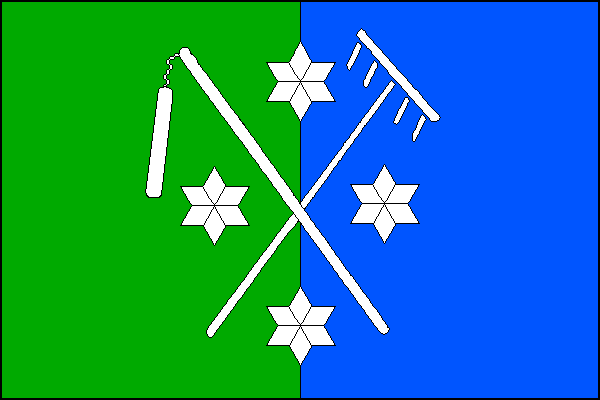 Municipal flag of Hostašovice village, Nový Jičín District, Czech Republic.